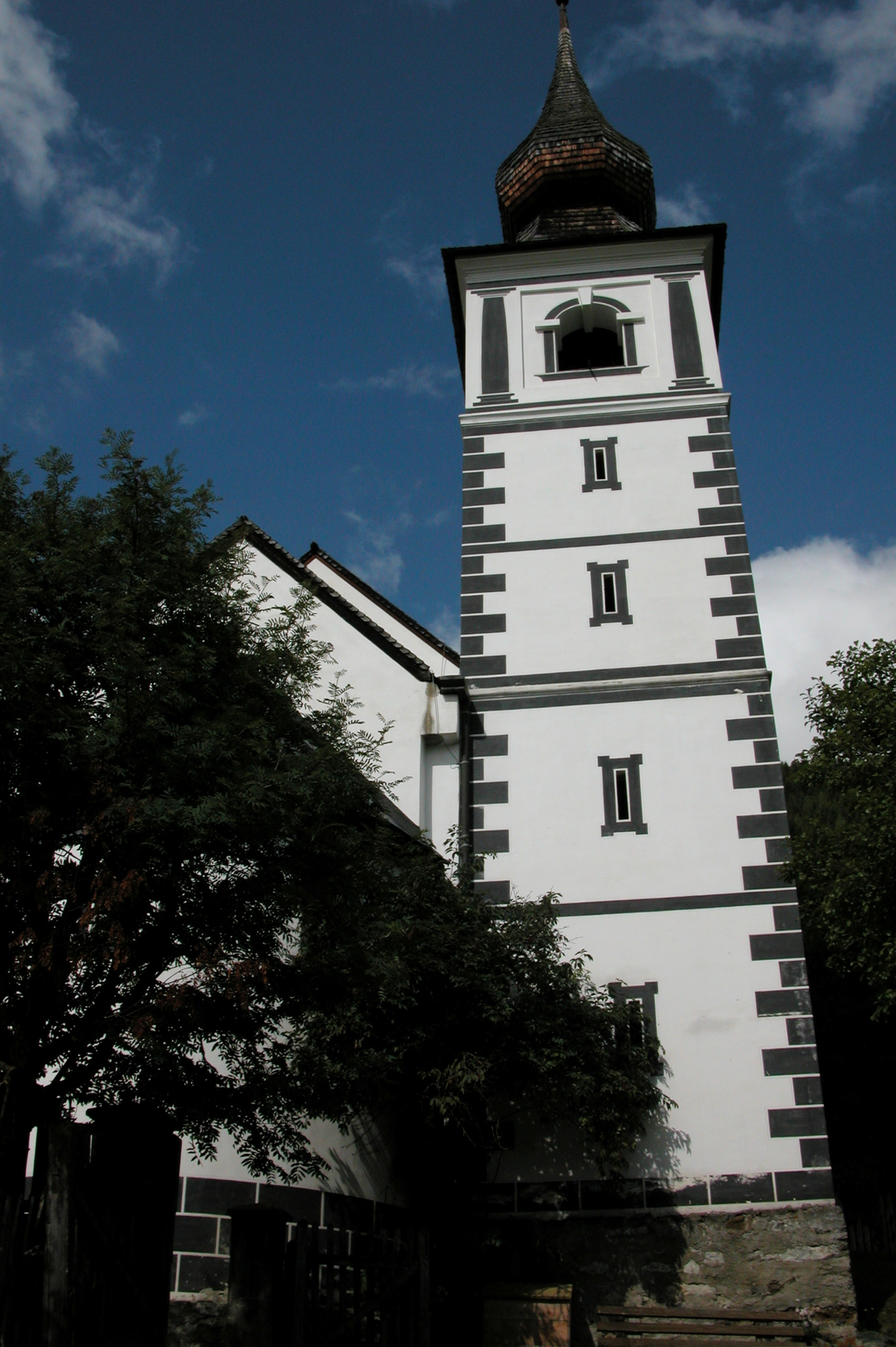 Church St. Rupert in Weißpriach Lungau/Austria - tower